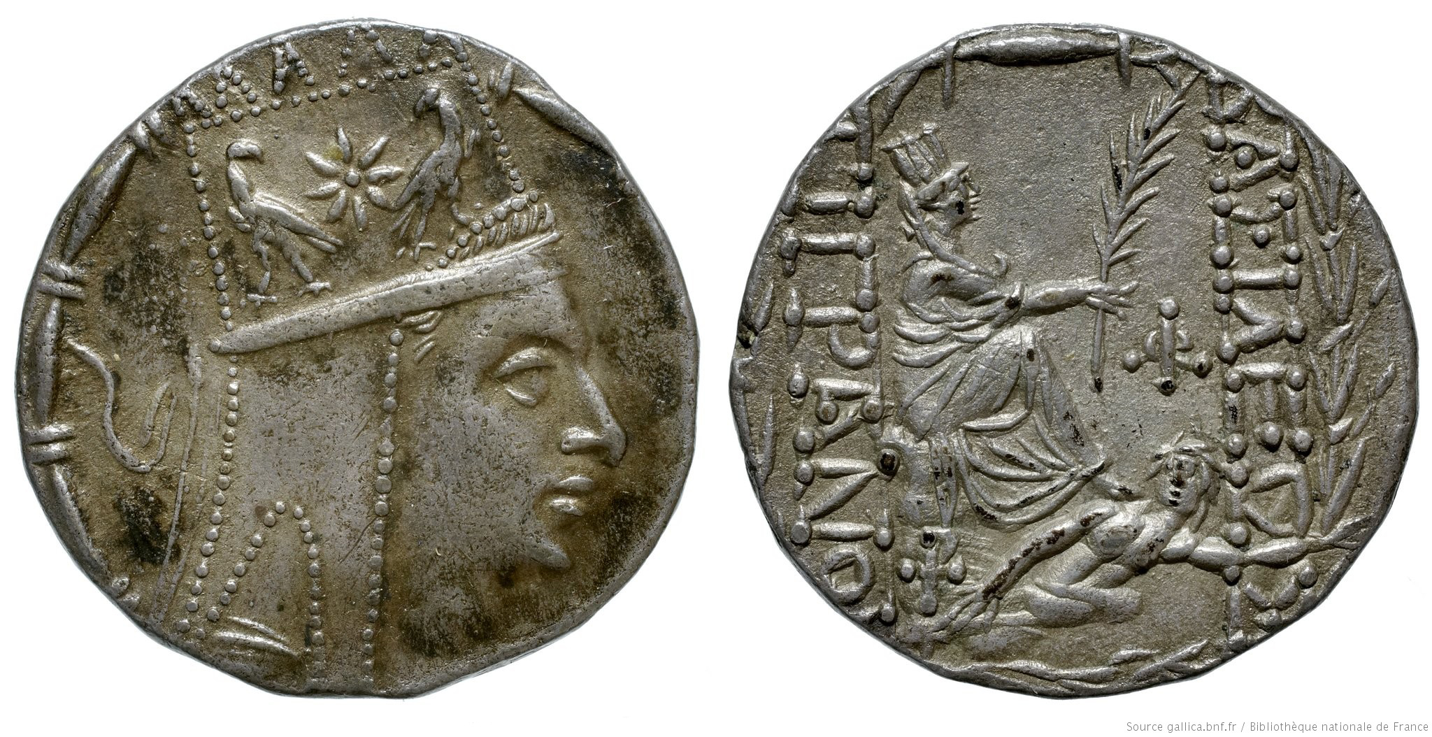 King of Armenia Tigranes II